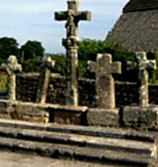 The five crosses (Les Cinq Croix) monument in Brittany France.